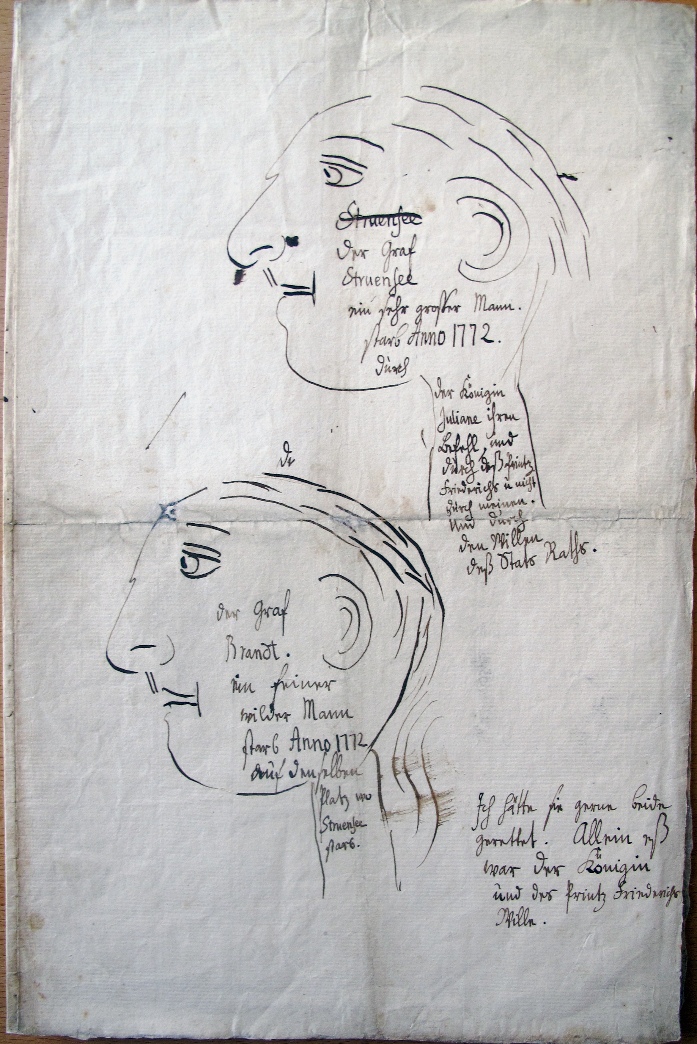 Christian VII's posthumous drawings of Johann Friedrich Struensee and Enevold Brandt.